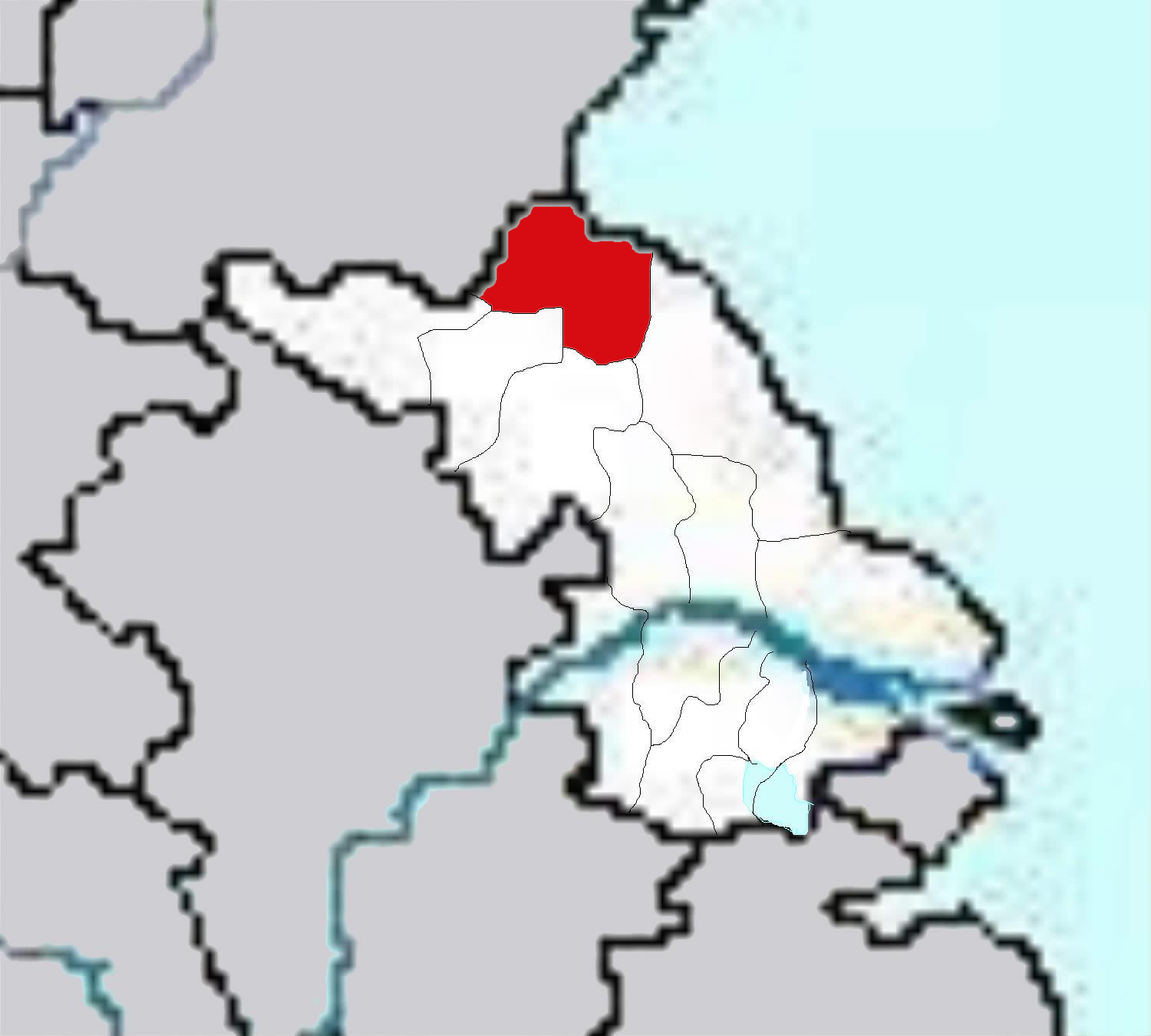 Maps of Jiangsu Province , China